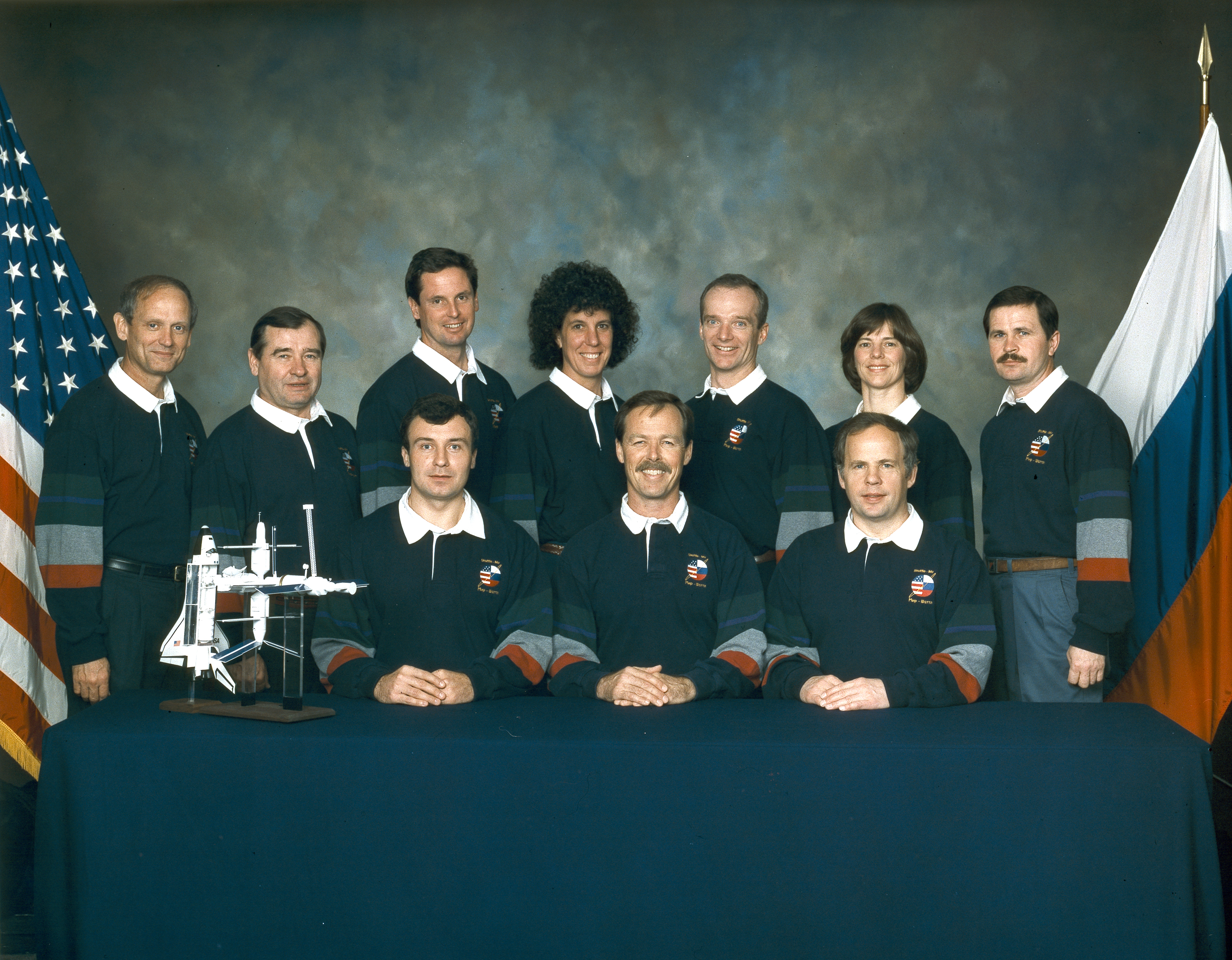 The crew assigned to the STS-71 mission included (front left to right) Vladimir N. Dezhurov, Mir 18 crew download; Robert L. Gibson, commander; and Anatoly Y. Solovyev, Mir 19 crew upload. On the back row, left to right, are Norman E. Thagard, Mir 18 crew download; Gennadiy Strekalov, Mir 18 crew download; Gregory J. Harbaugh, mission specialist; Ellen S. Baker, mission specialist; Charles J. Precourt, pilot; Bonnie J. Dunbar, mission specialist; and Nikolai Budarin, Mir 19 crew upload. Launched aboard the Space Shuttle Atlantis on June 27, 1995 at 3:32:19.044 pm (EDT), the STS-71 mission marked many firsts in human space flight history. It was the first U.S. Space Shuttle-Russian Space Station Mir docking and joint on-orbit operations, and the first on-orbit change out of a shuttle crew. In addition, it was the largest spacecraft ever in orbit and was the 100th U.S. human space launch conducted from the Cape.